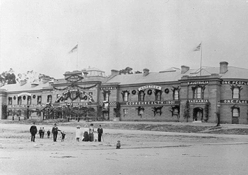 A photograph of Tasmanian Parliament House in 1901 decorated for Federation celebrations